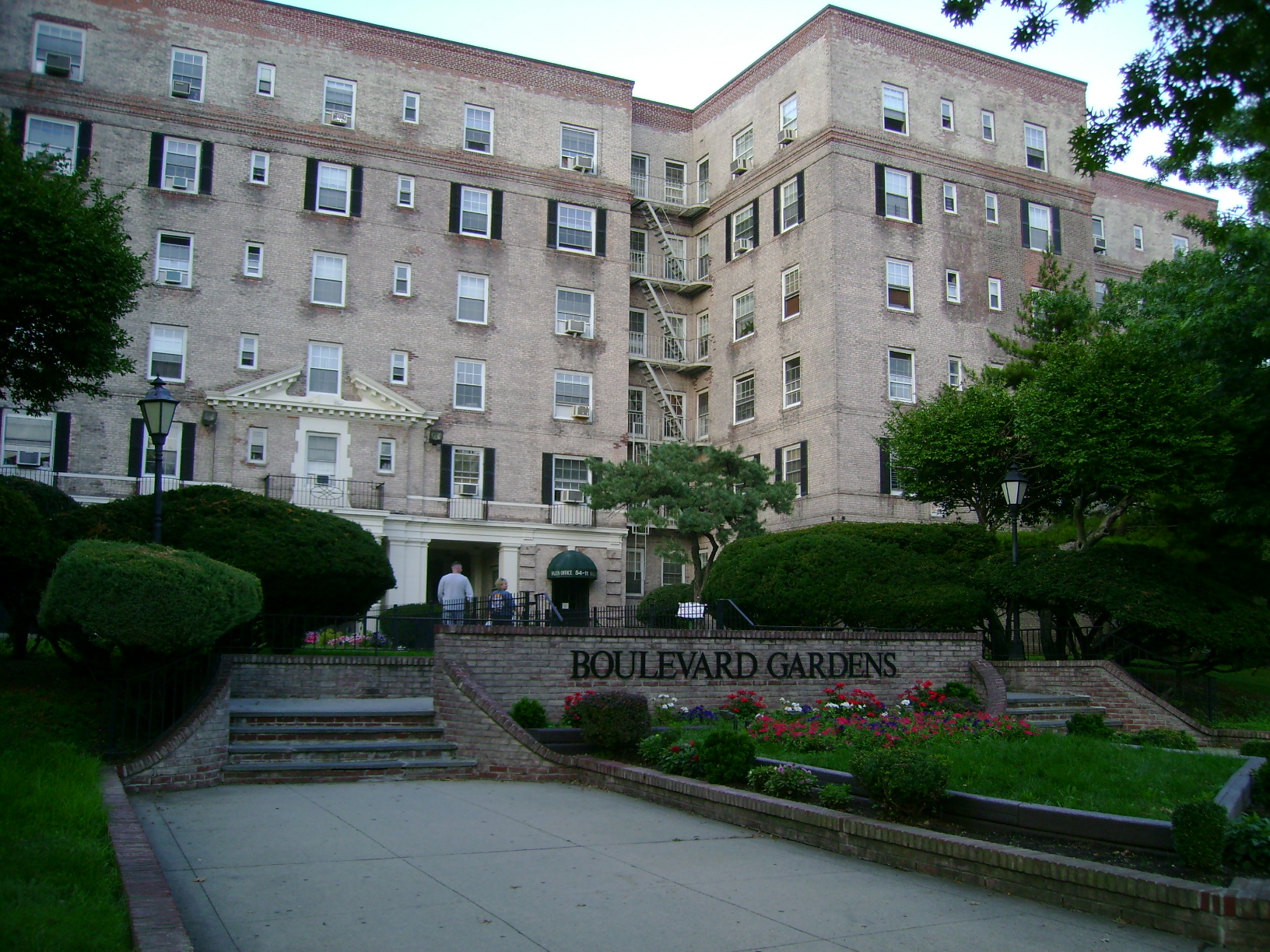 This is a picture of the front of Boulevard Gardens, New York City.